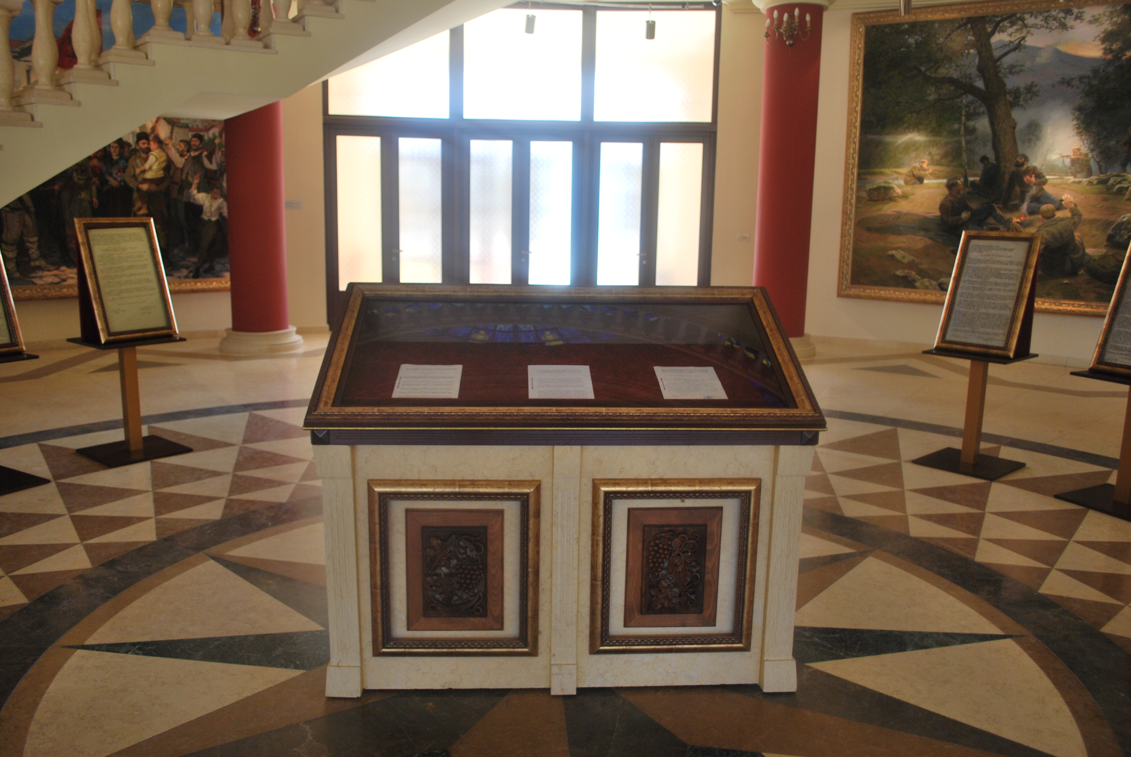 Museum of the Macedonian Struggle for sovereignity and independence - " Museum of VMRO and Museum of victims of communist regime" in Skopje, Macedonia.